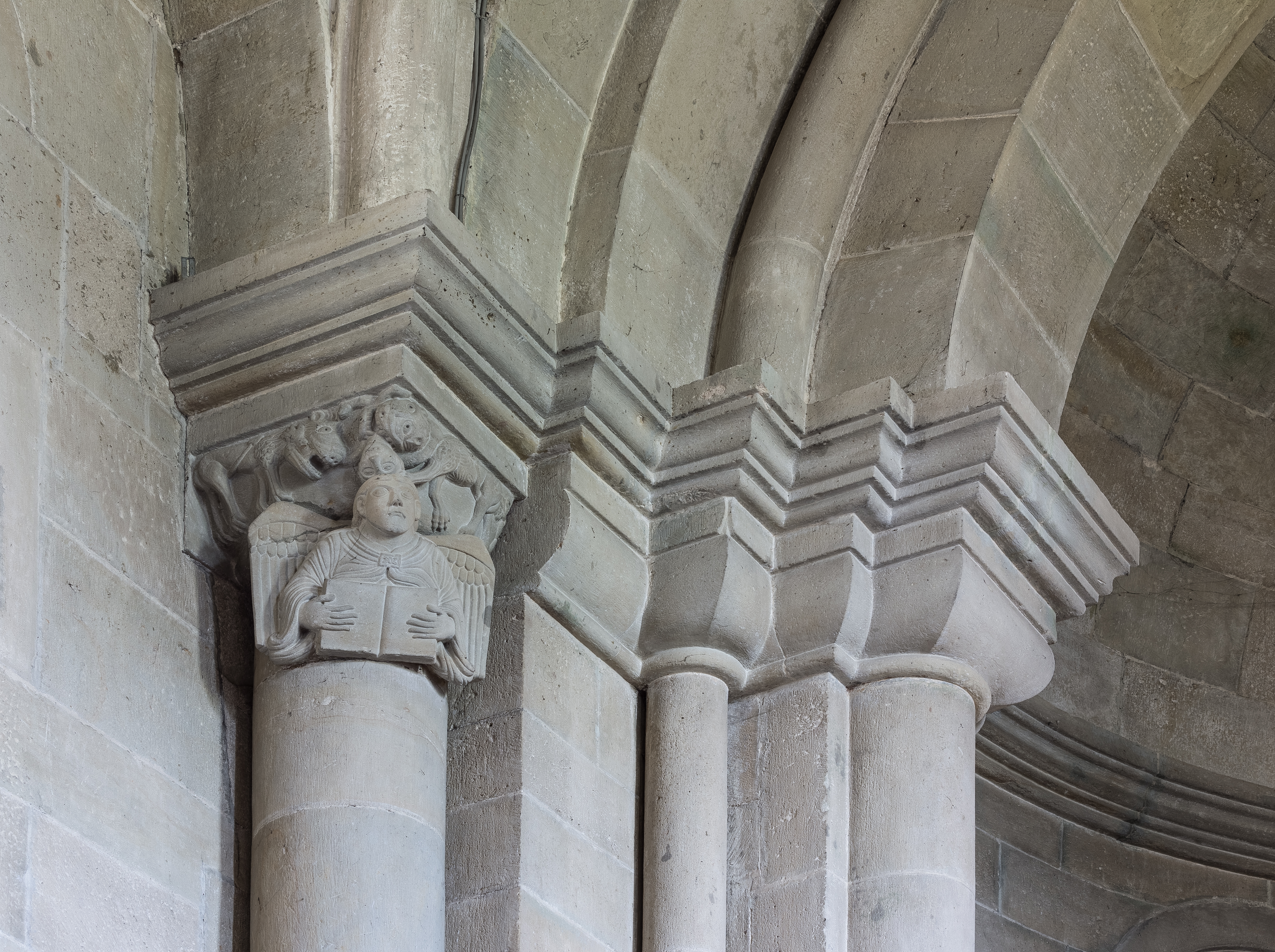 Internal view of the parish church Schöngrabern, Weinviertel, Lower Austria